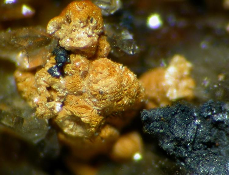 Uranotungstite Locality: Krunkelbach Valley Uranium deposit, Menzenschwand, Black Forest, Baden-Württemberg, Germany Yellow-orange aggregates of uranotungstite (analysed). Field of view 3 mm. Specimen and photo Leon Hupperichs.